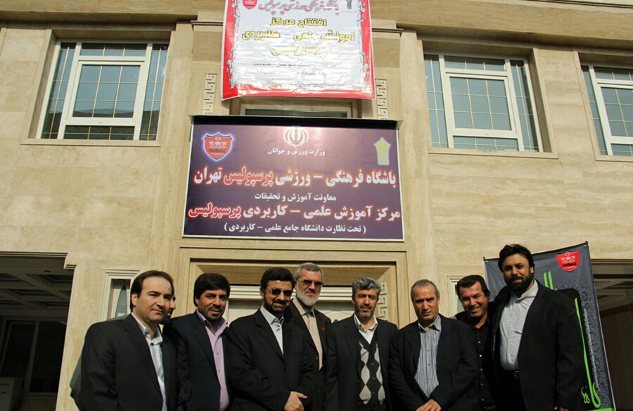 The opening ceremony of the University of Persepolis